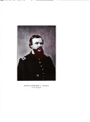 Image of Ethelbert Ludlow Dudley